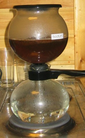 A bodum vacuum brewer "going north".